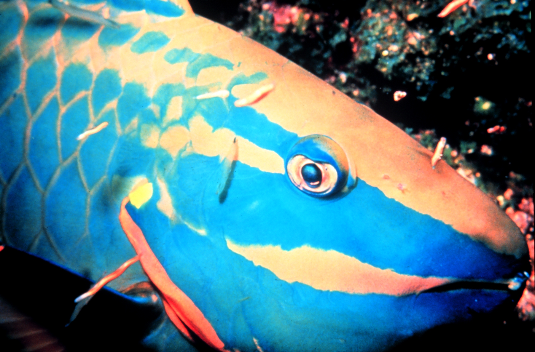 Close-up of a spotlight parrotfish (Sparisoma viride) supermale Image ID: reef2591, NOAA's Coral Kingdom Collection